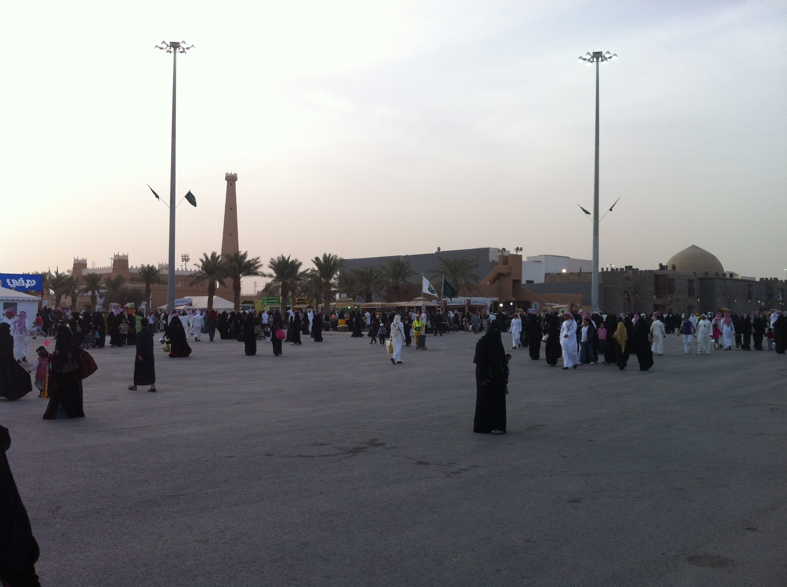 Jenadriyah 27